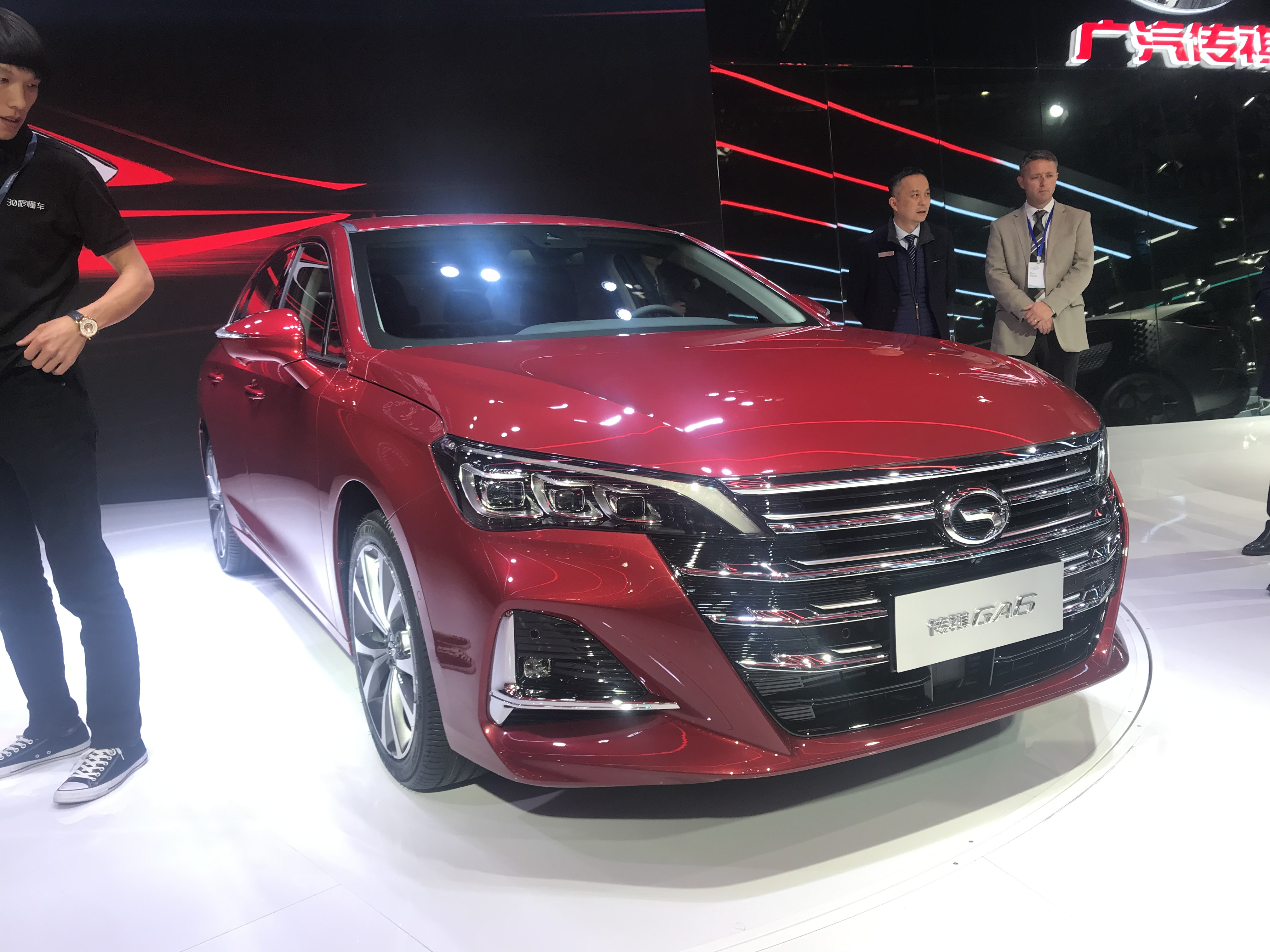 Trumpchi GA6 second generation